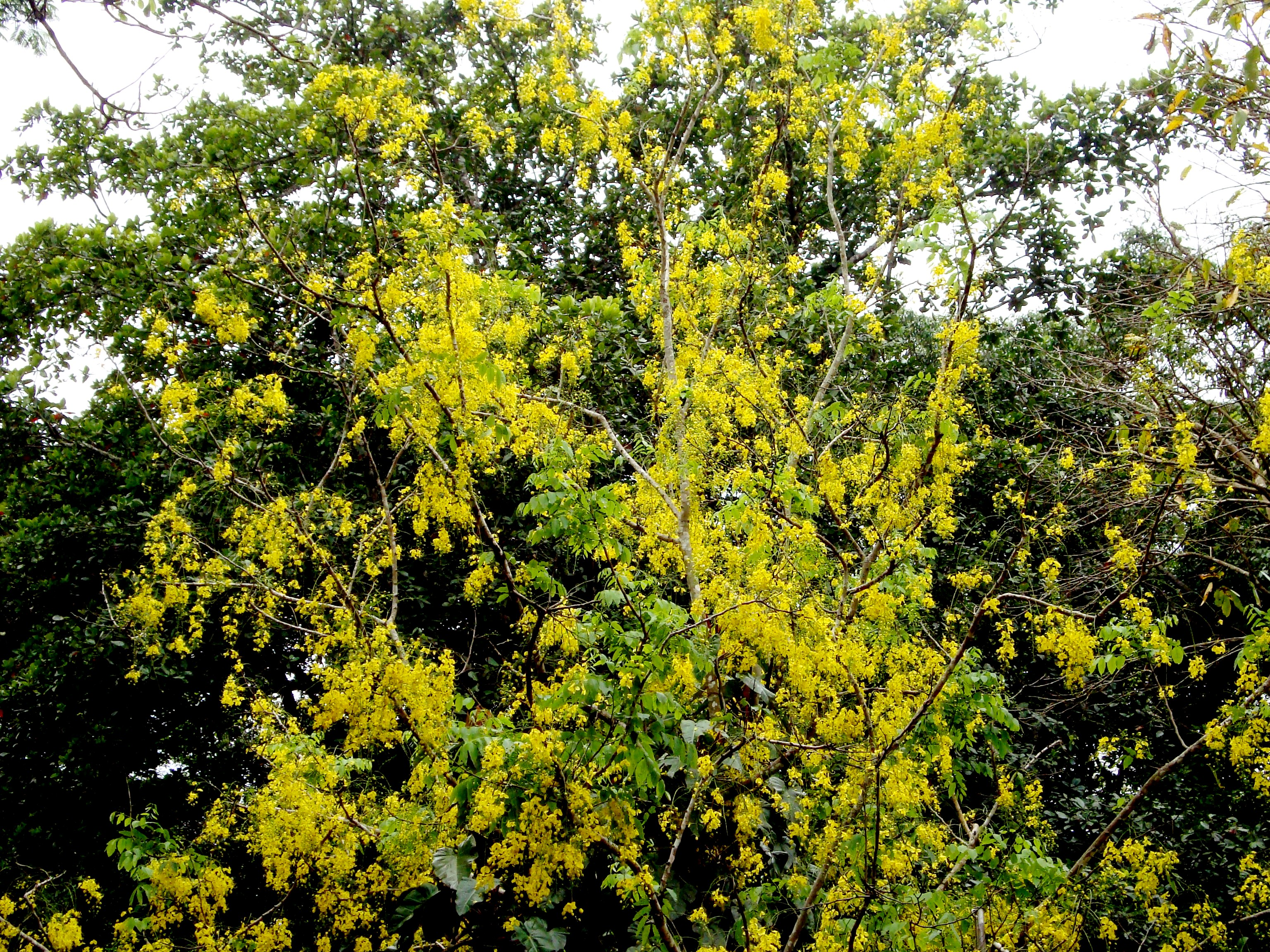 Vishu special Kanikkonna